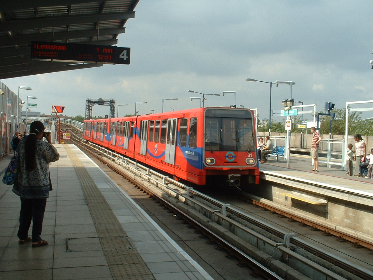 Greenwich station DLR platforms looking west with northbound train arriving.